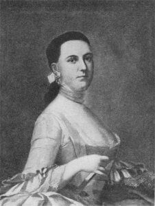 Anna Appleby (1738-1798), wife of merchant and shipowner John Brown